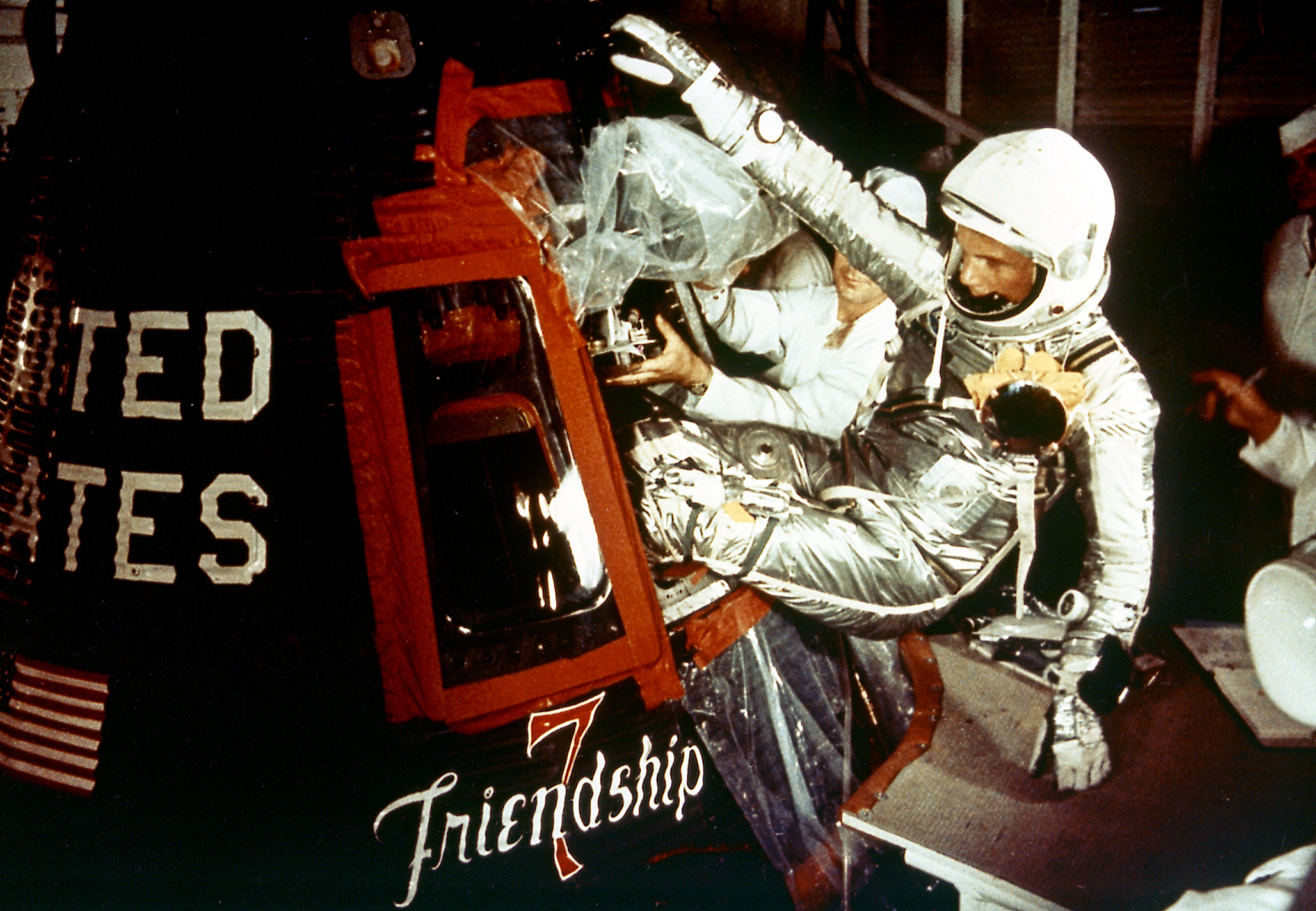 Astronaut John Glenn enters the Mercury spacecraft, Friendship 7, prior to the launch of MA-6 on February 20, 1962 and became the first American who orbited the Earth. The MA-6 mission was the first manned orbital flight boosted by the Mercury-Atlas vehicle, a modified Atlas ICBM (Intercontinental Ballistic Missile), lasted for five hours, and orbited the Earth three times.